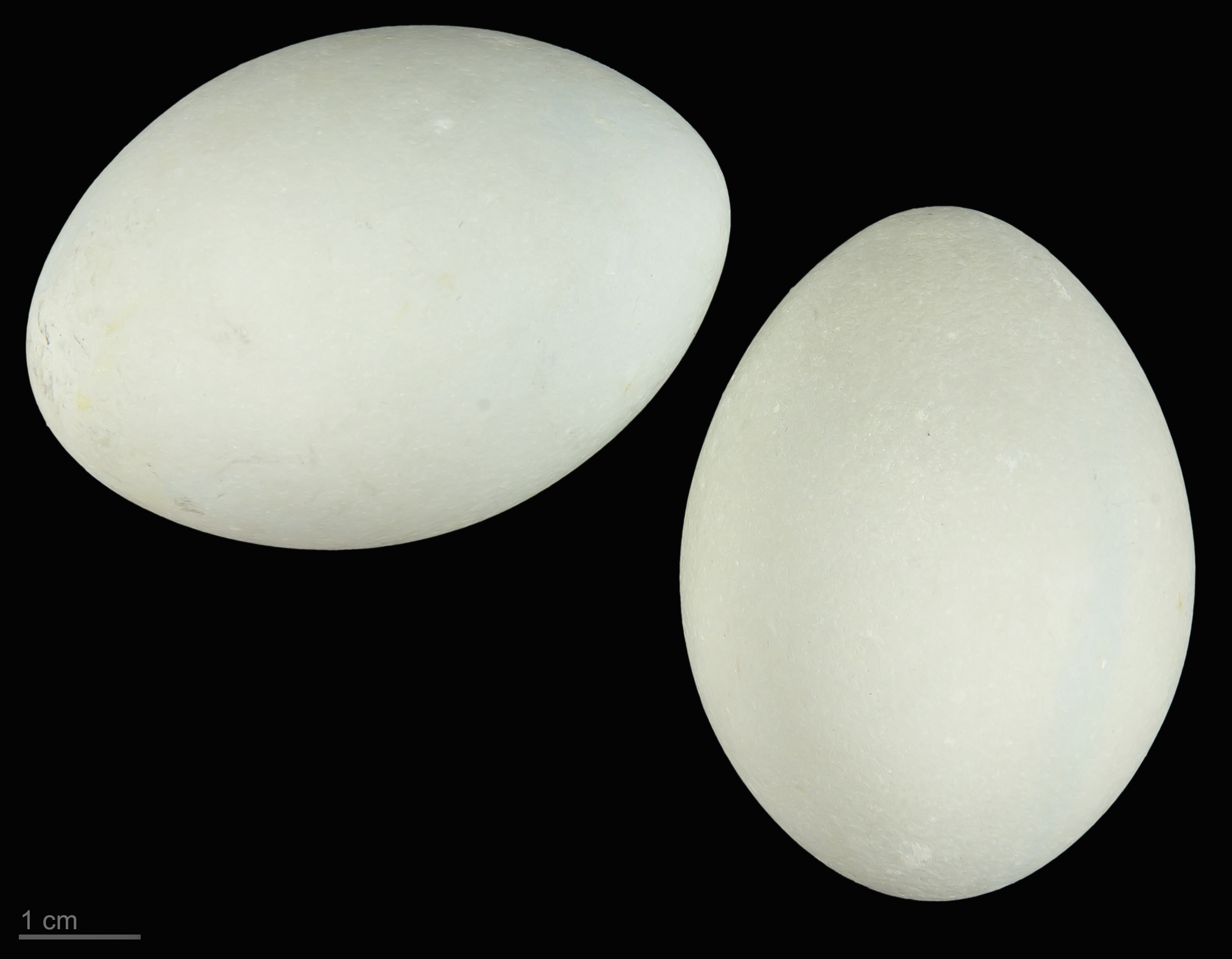 Eggs of great egret Two specimens of the same spawn ; collection of Jacques Perrin de Brichambaut.